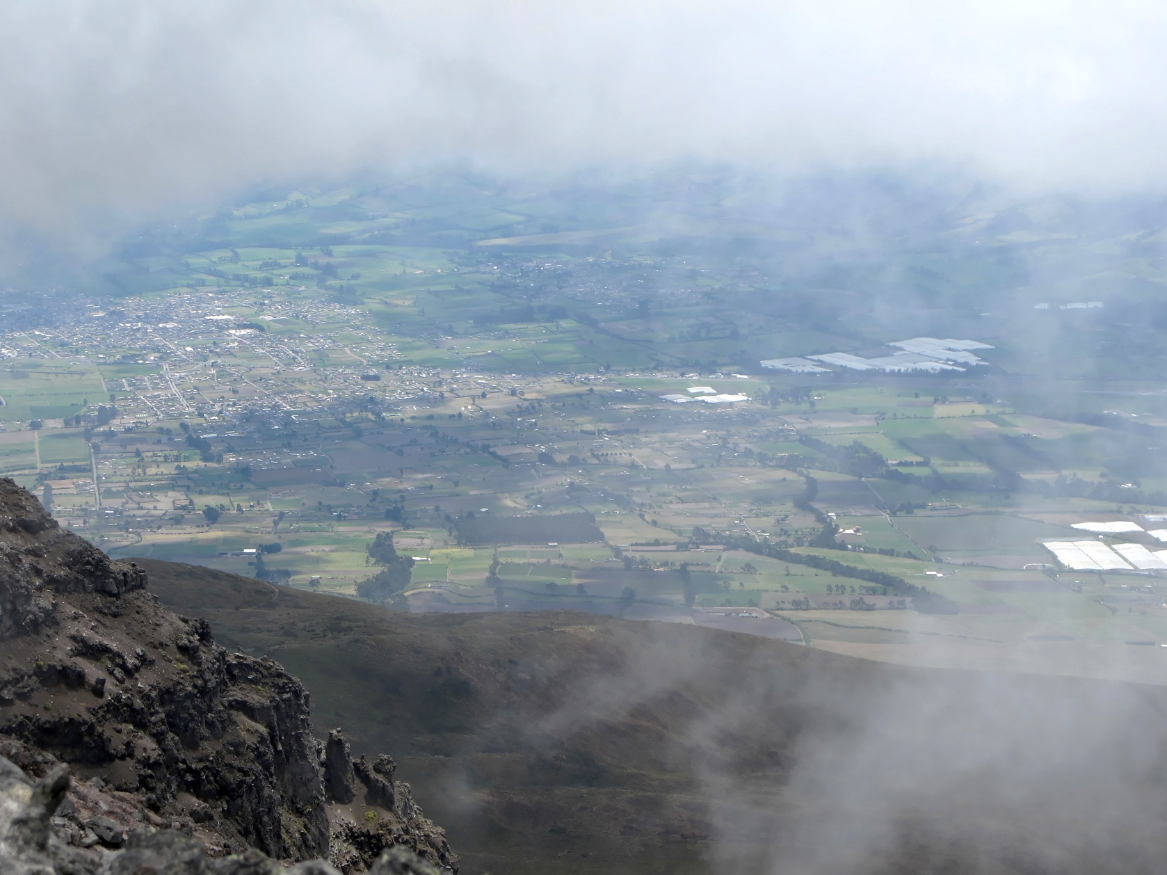 Machachi, view from Corazón